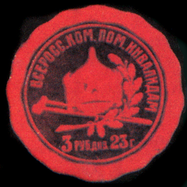 Revenue stamp of voluntary gathering of the All-Russia committee of the help to invalids of war, 1922